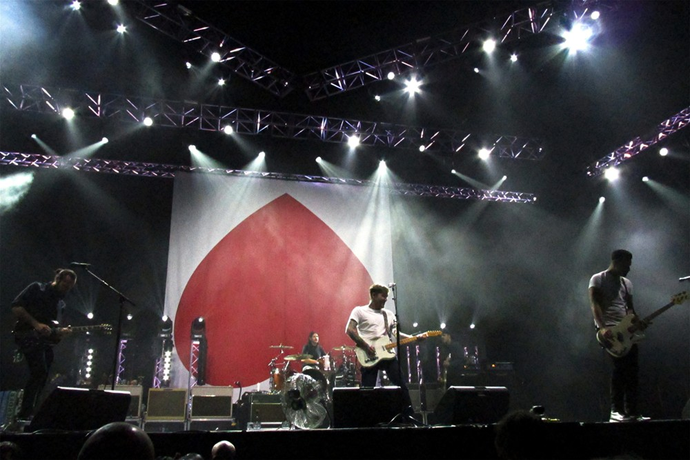 The Gaslight Anthem live at Alexandra Palace, London, 19 November 2014